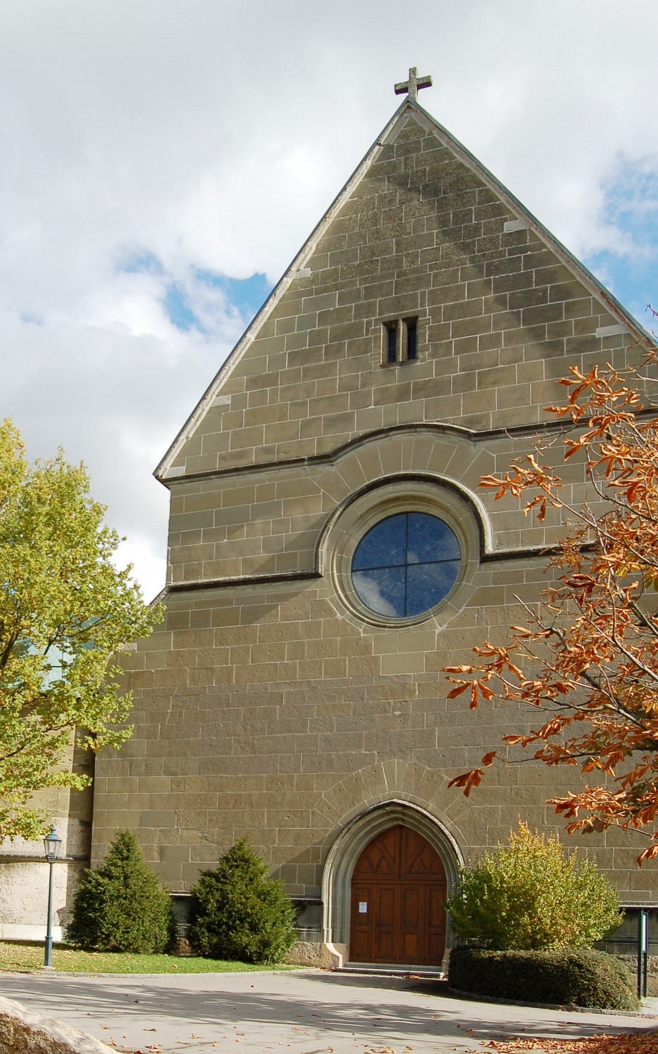 Fribourg, Switzerland